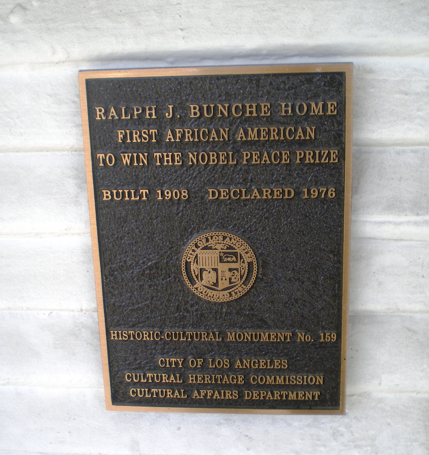 Historical marker on Ralph J. Bunche House — 1221 E. 40th Place, South Los Angeles, California. A Los Angeles Historic-Cultural Monument marker for the boyhood house of Nobel Peace Prize winner Ralph Bunche (1904-1971). It is also on the National Register of Historic Places in Los Angeles, and houses the the Ralph Bunche Peace & Heritage Center museum and community center.